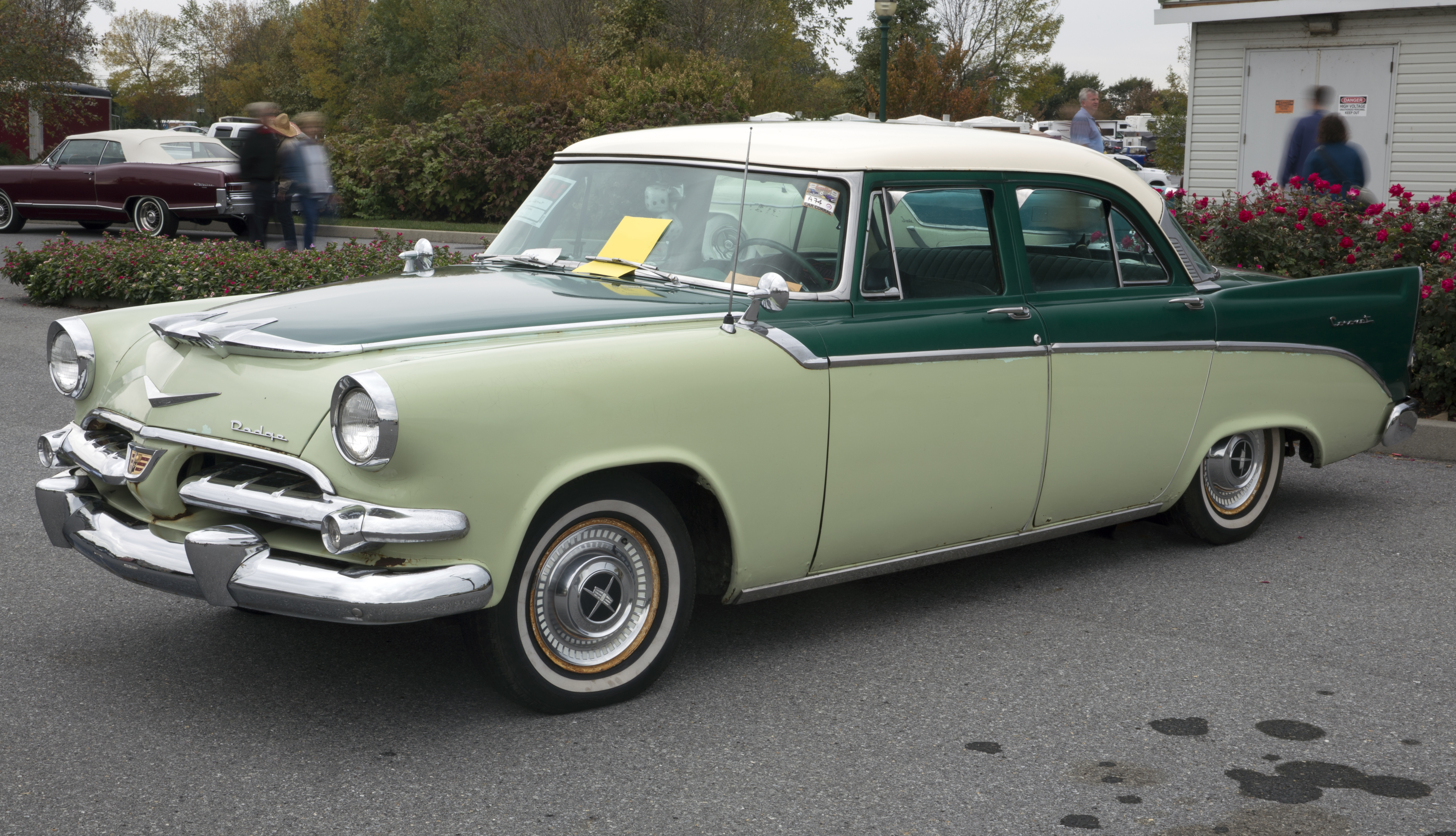 A 1956 Dodge Coronet V8 four-door sedan (D-63) in the Car Corral at Hershey 2019.